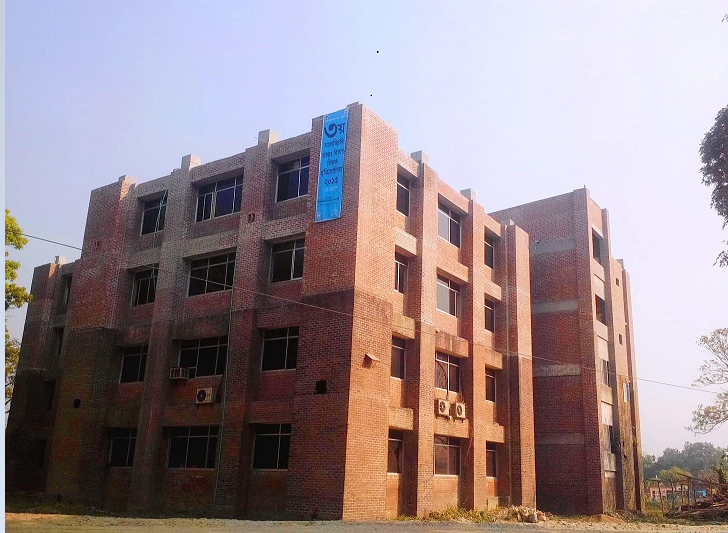 Academic Building's Side View